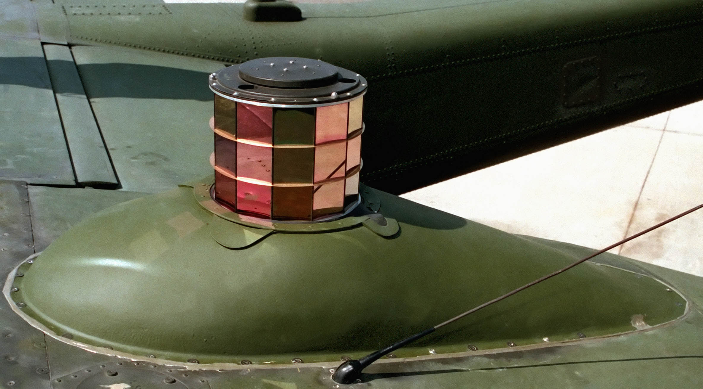 ALQ-144 IRCM jammer. Mounted on a OV-10D Bronco